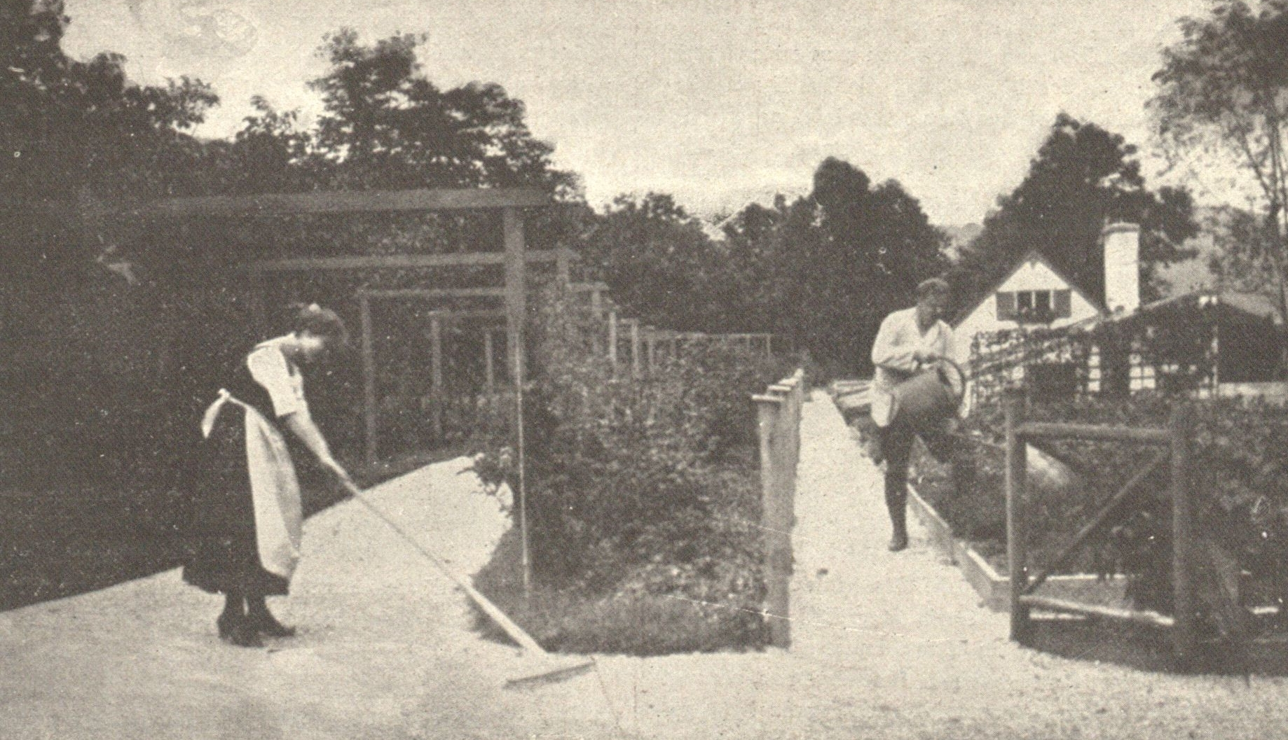 Leo Slezak with his daughter Margarete in his garden in Rottach-Egern; 1918